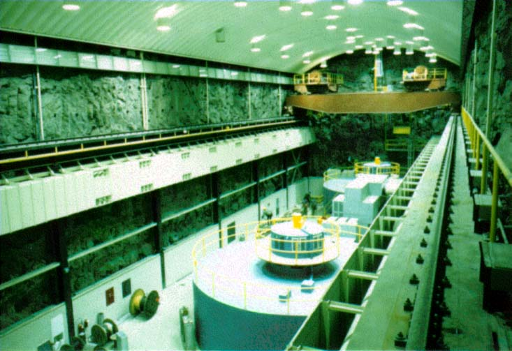 Interior of Morrow Point Powerplant, Colorado, USA